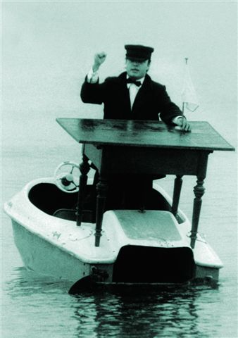 Elmar Hess: "War Years", Still, 1996, c-print, 100 x 70 cm